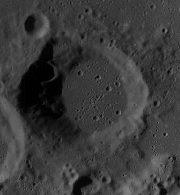 Scobee lunar crater - LROC image WAC No. M118471061ME. Calibrated by LROC_WAC_Previewer.